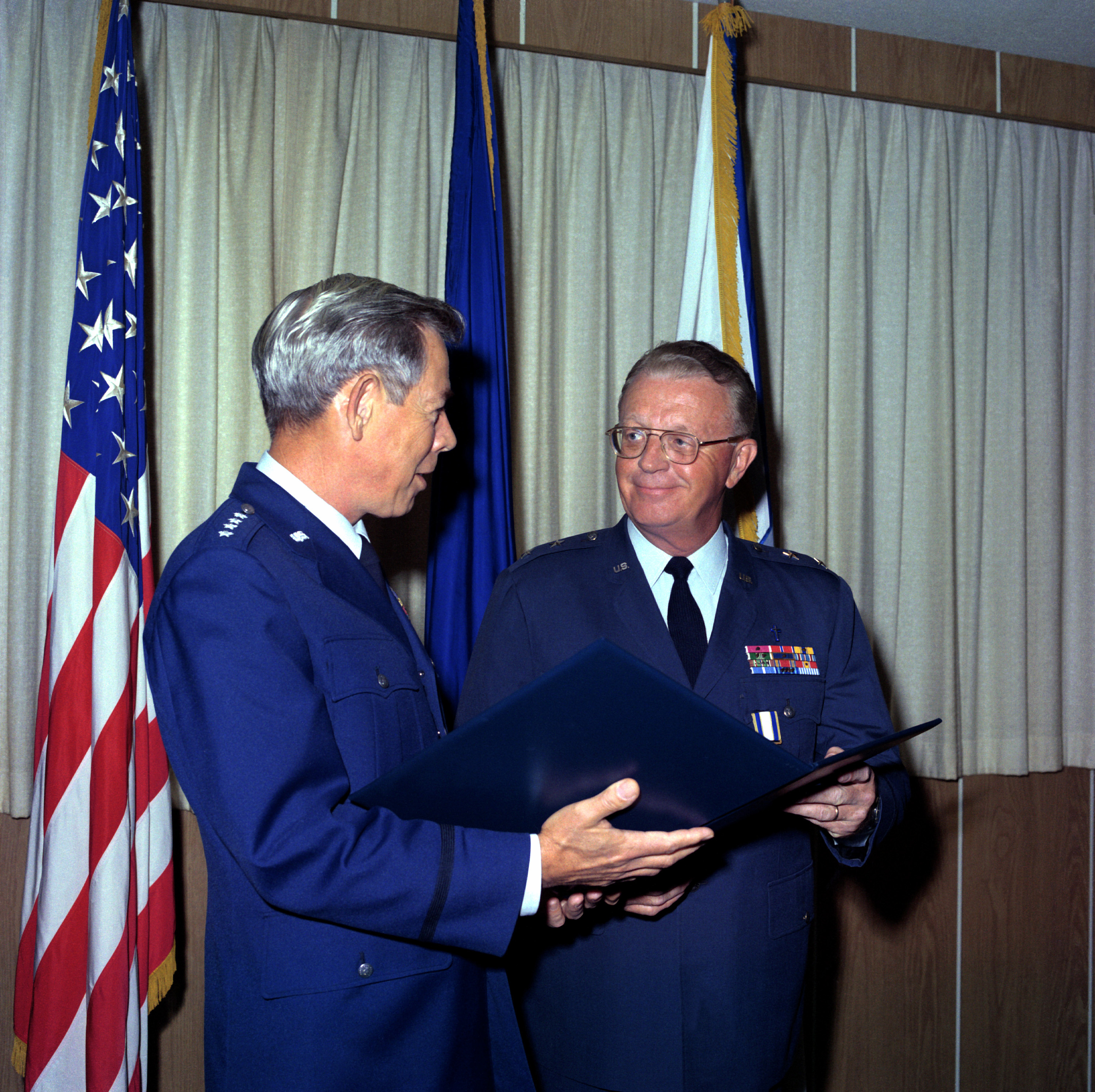 Commander-in-Chief of the Strategic Air Command General Richard H. Ellis presents the Distinguished Service Medal to Major General Ray M. Terry at Offutt Air Force Base, Nebraska.